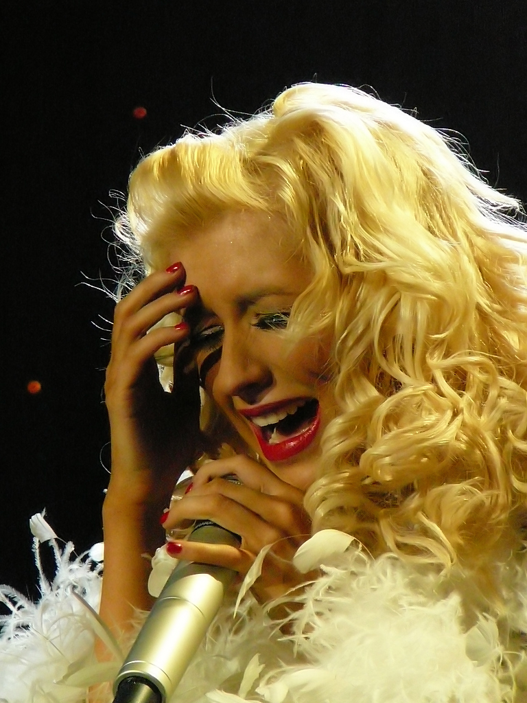 Christina Aguilera singing "Hurt" during her "Back to Basics World Tour"